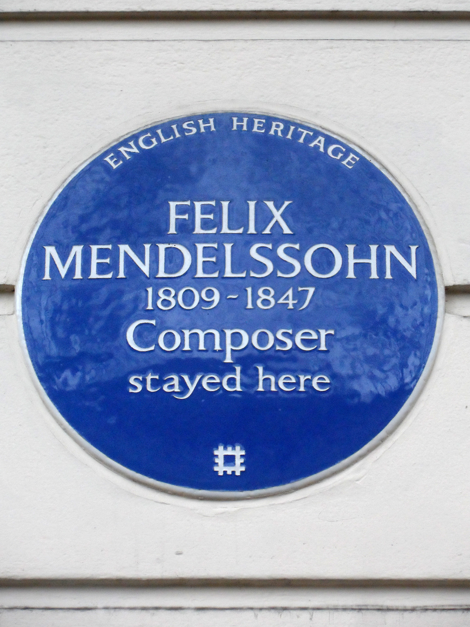 Blue plaque erected in 2013 by English Heritage at 4 Hobart Place, Belgravia, London SW1W 0HU, City of Westminster